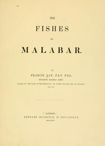 Fishes of Malabar